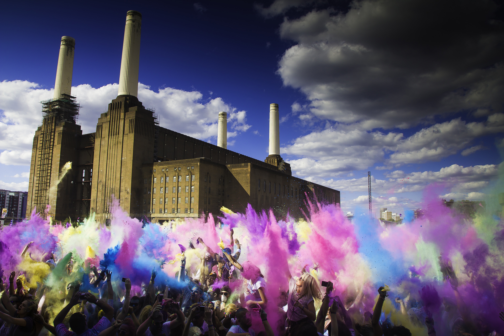 A picture from the Holi Festival Of Colours London 2014 at Battersea